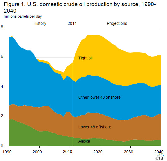 History and forecast of US oil production 1990-2040